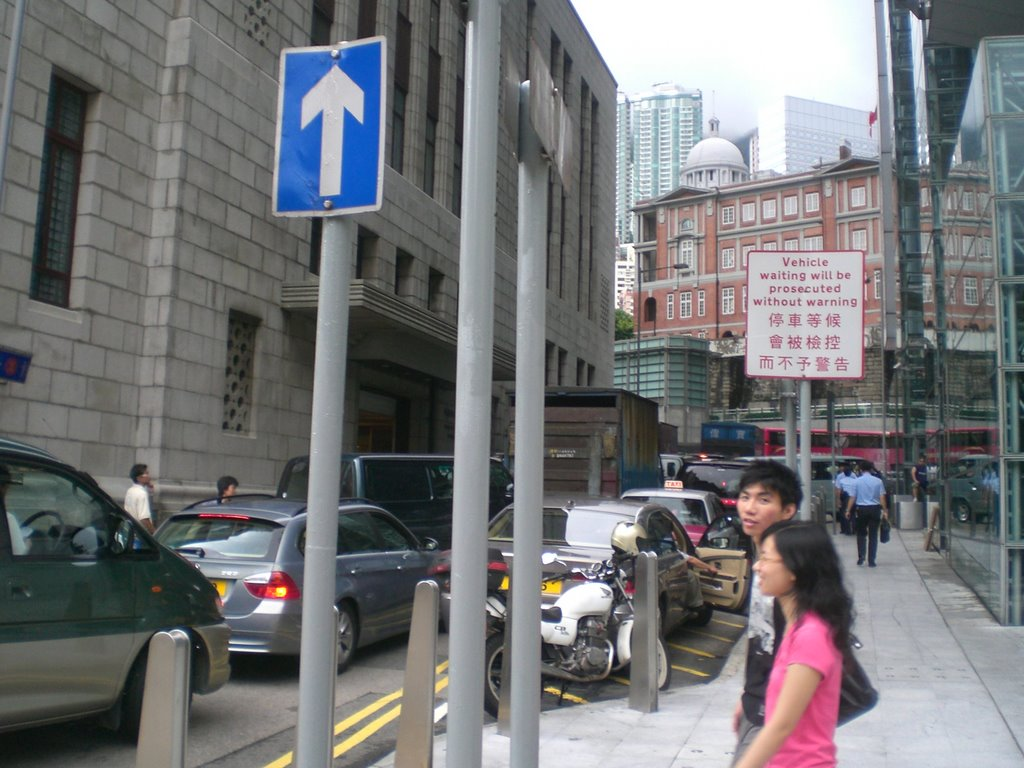 Author= RoxRox Traffic jam in 銀行街, Central, Hong Kong